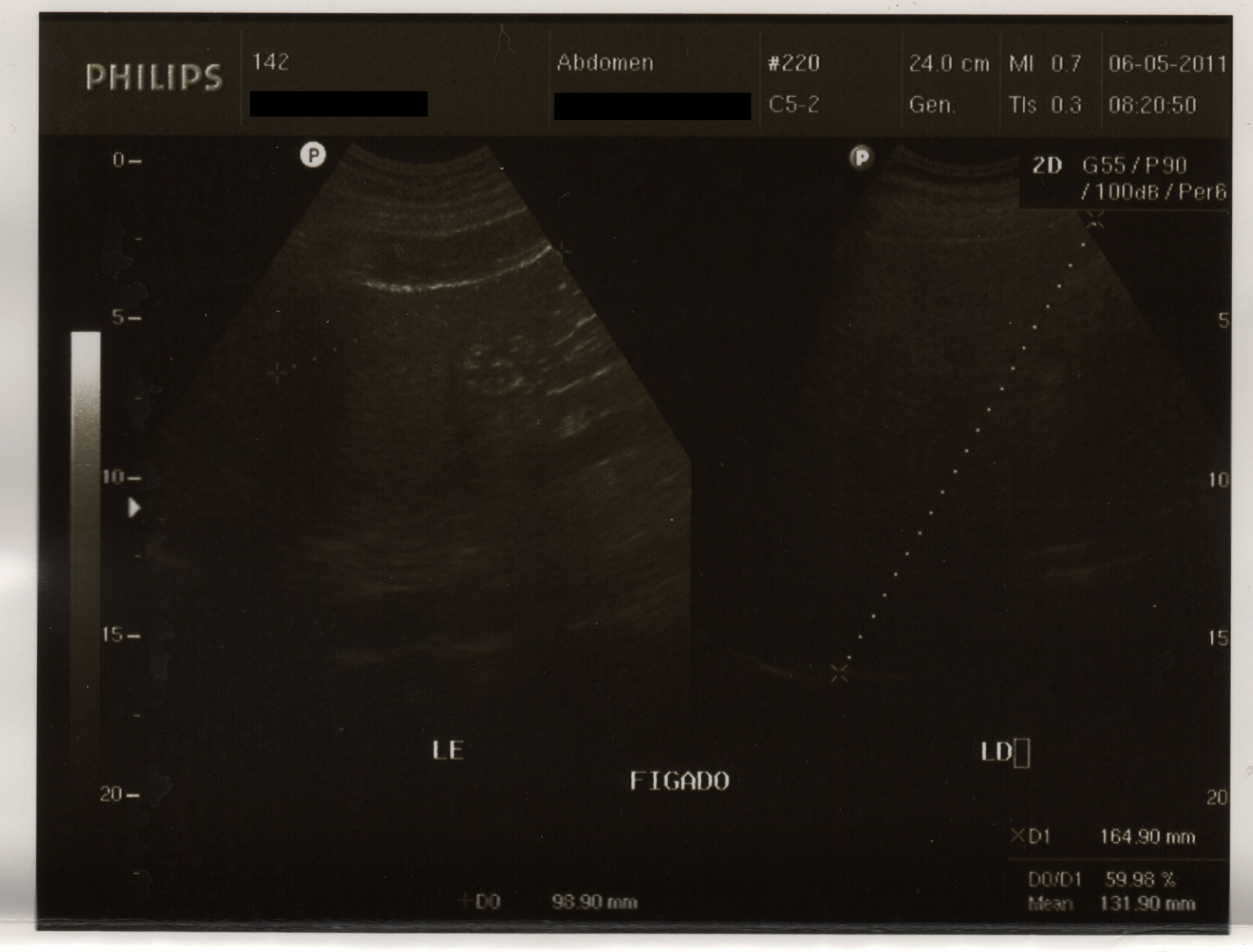 Ultrasound of the liver showing hepatomegaly in patient diagnosed with visceral leishmaniasis.